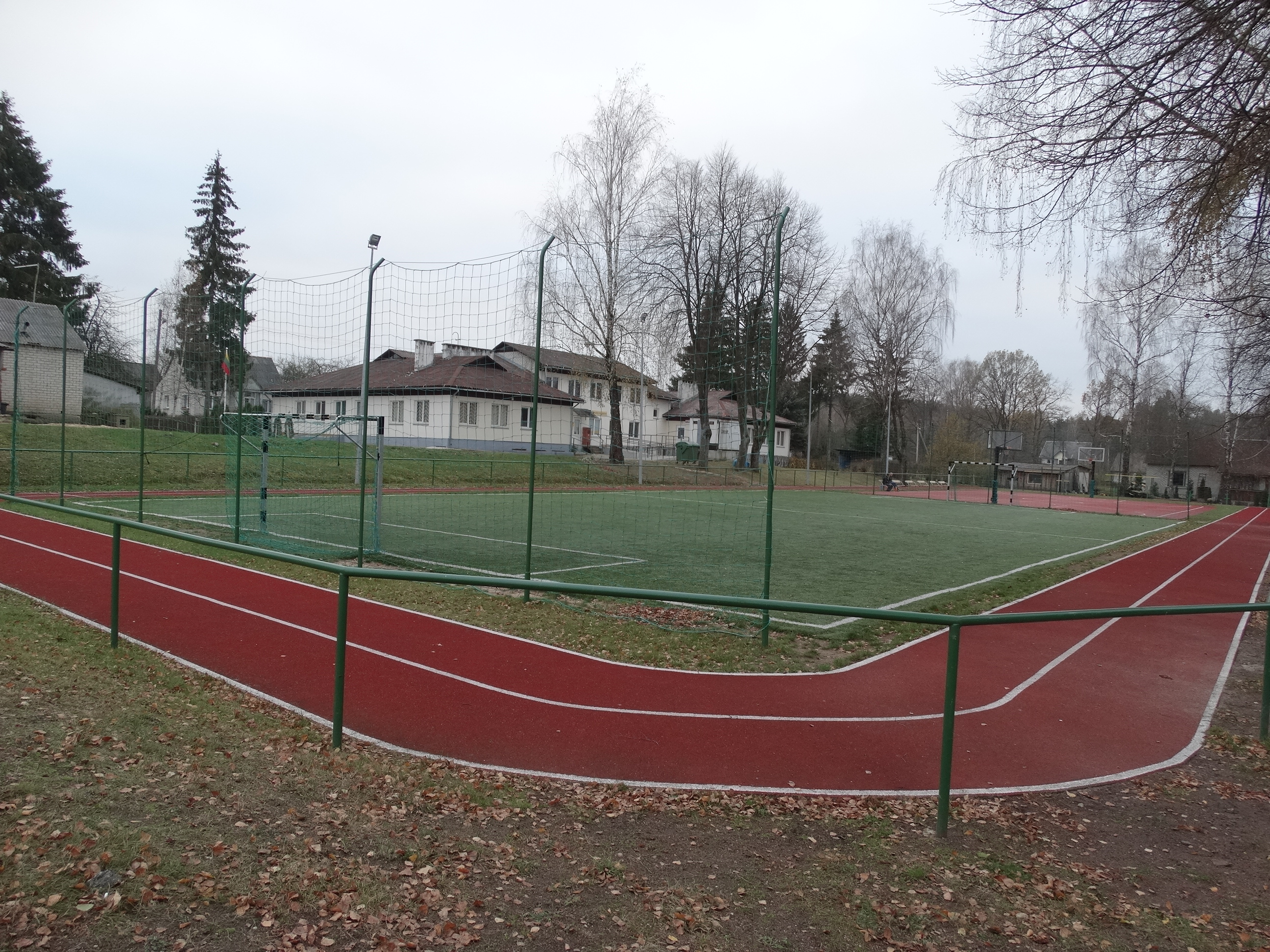 School, Kazokiškės, Elektrėnai municipality, Lithuania